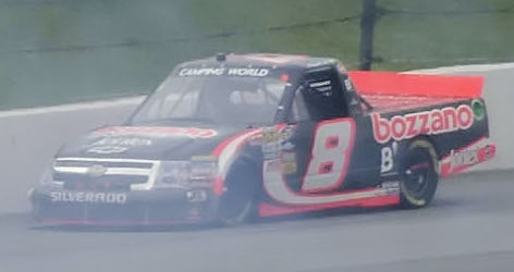 Nelson Piquet Jr.'s No. 8 Bozzano Chevrolet at Pocono Raceway in 2011